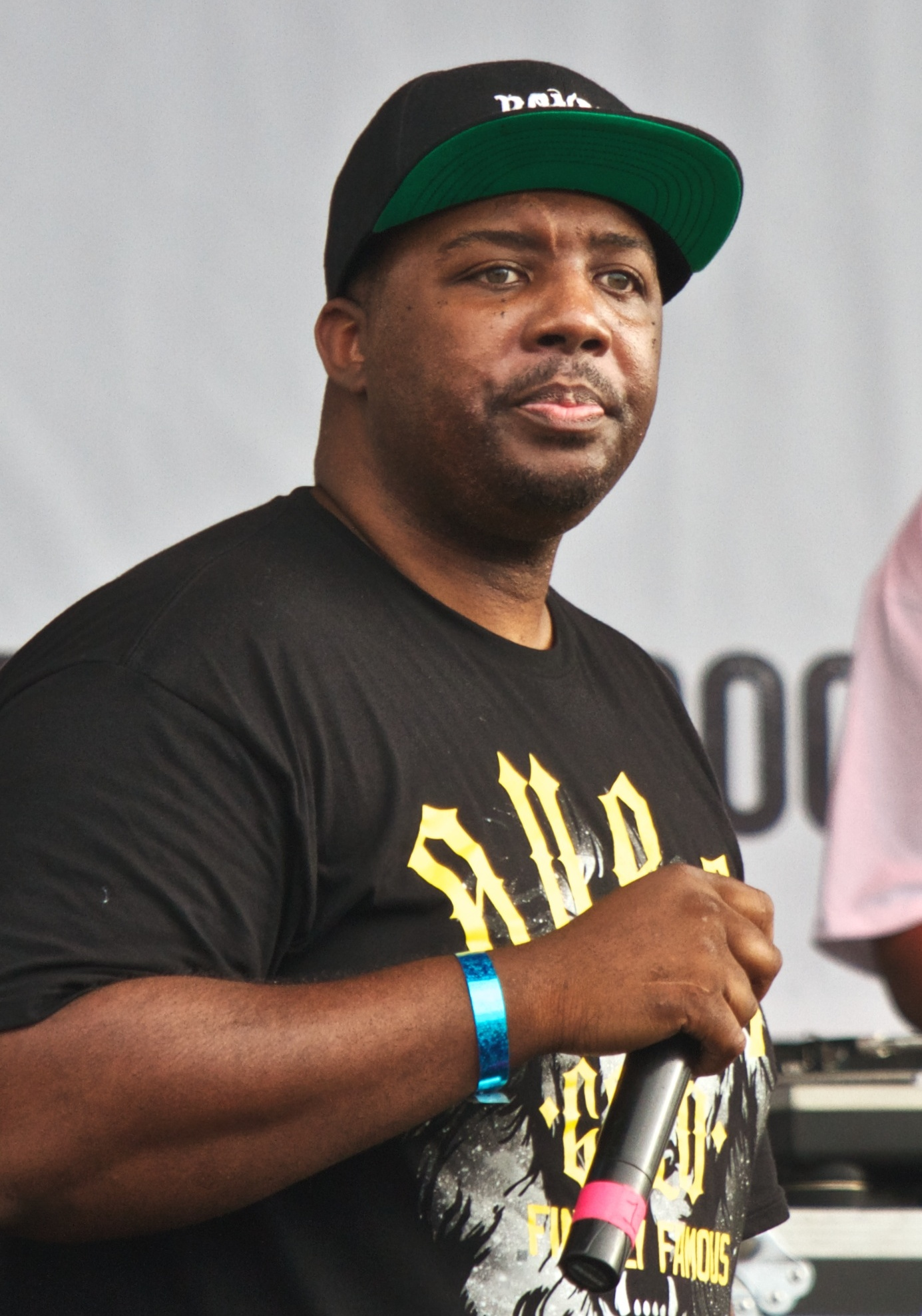 EPMD at Brooklyn Hip-Hop Festival 2013